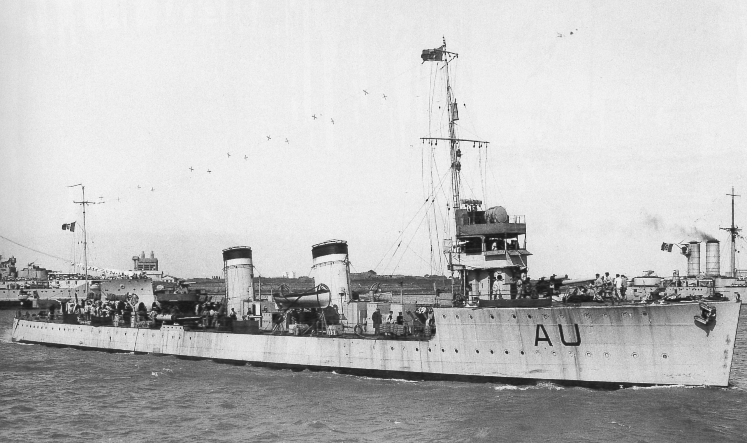 Italian destroyer Audace at Brindisi in 1917.